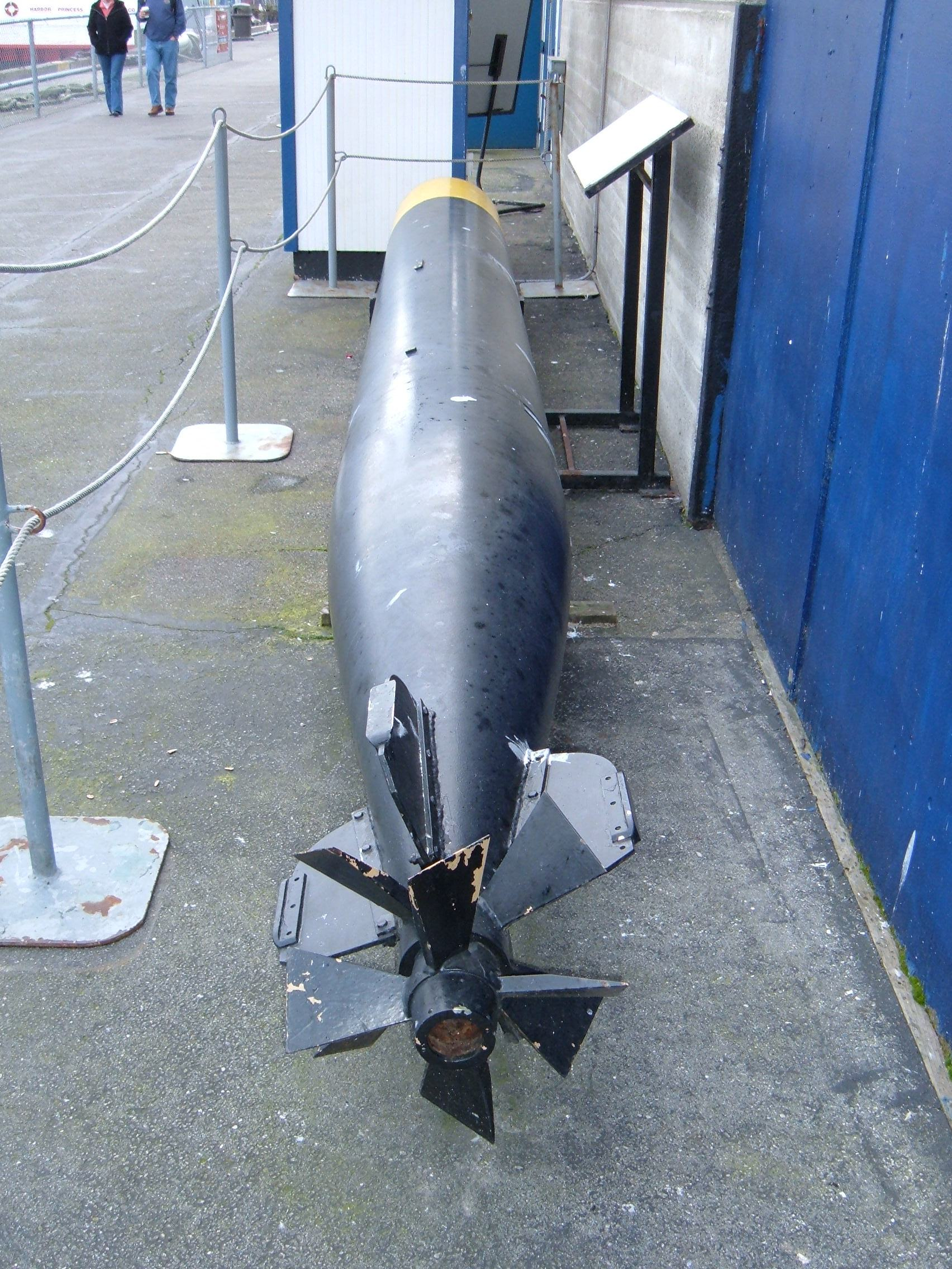 A Mark XIV torpedo on display at the pier where the USS Pampanito (SS-383) is berthed at Fisherman's Wharf in San Francisco.